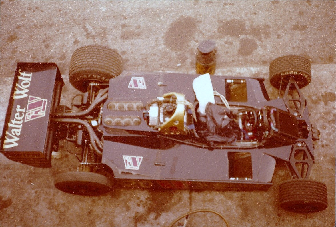 Wolf